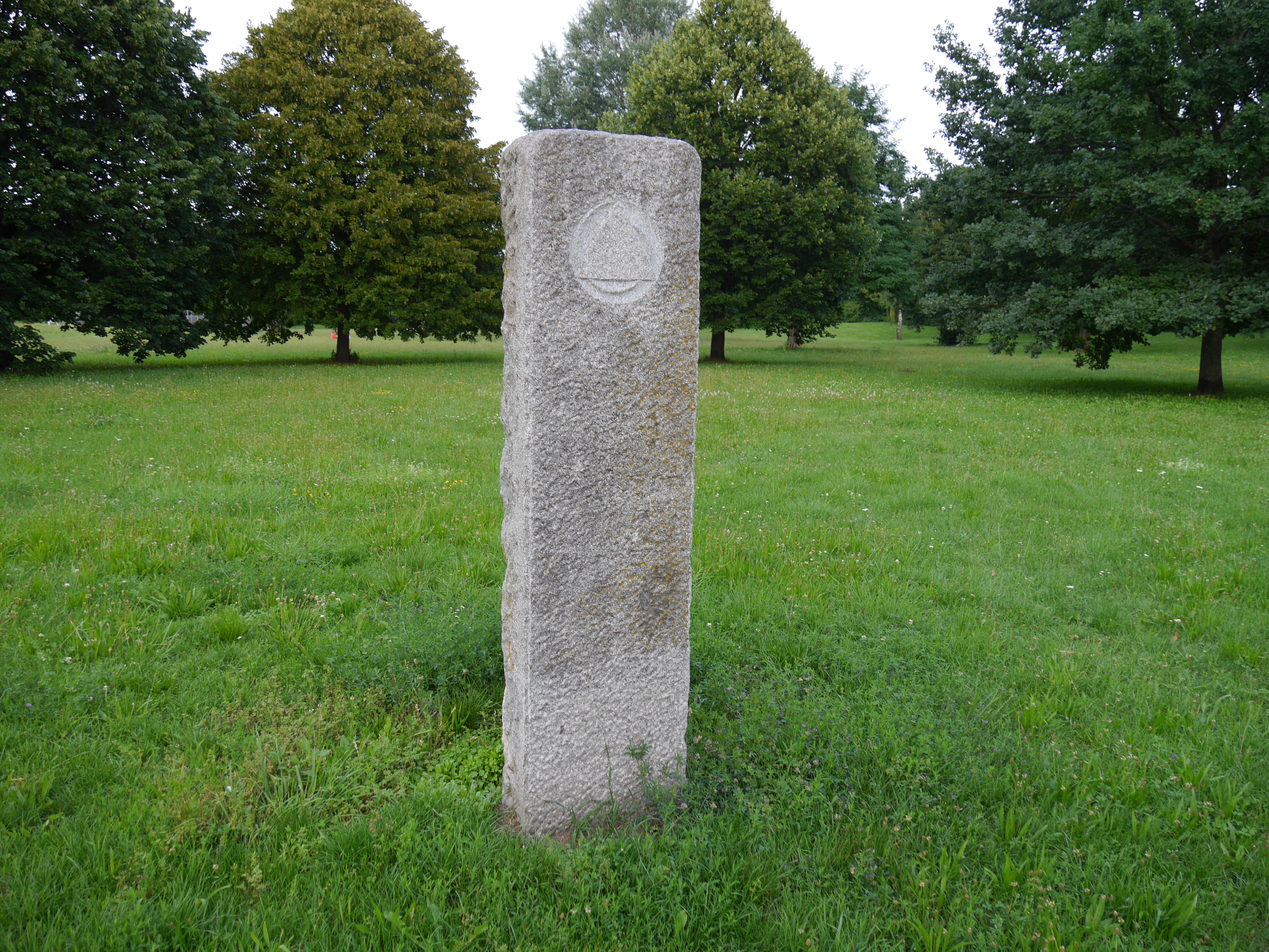 stele in westpark, Nuremberg